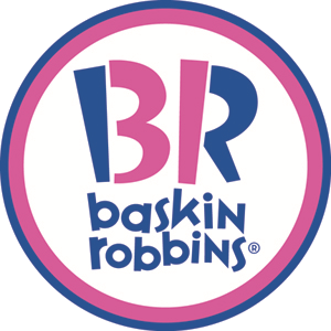 Logo for Baskin Robbins, updated in 2013.